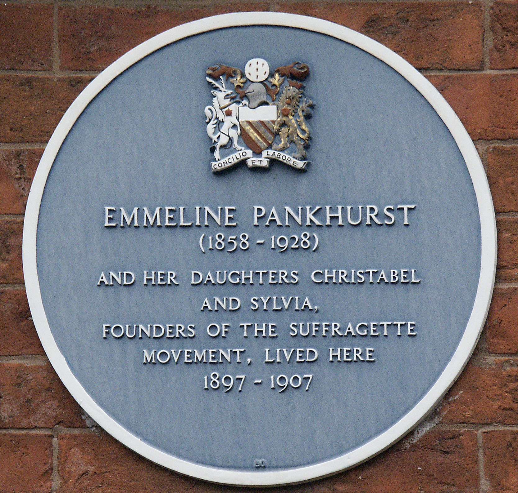 Blue historical place plaque on the wall of The Pankurst Centre Grafton Street, Manchester UK